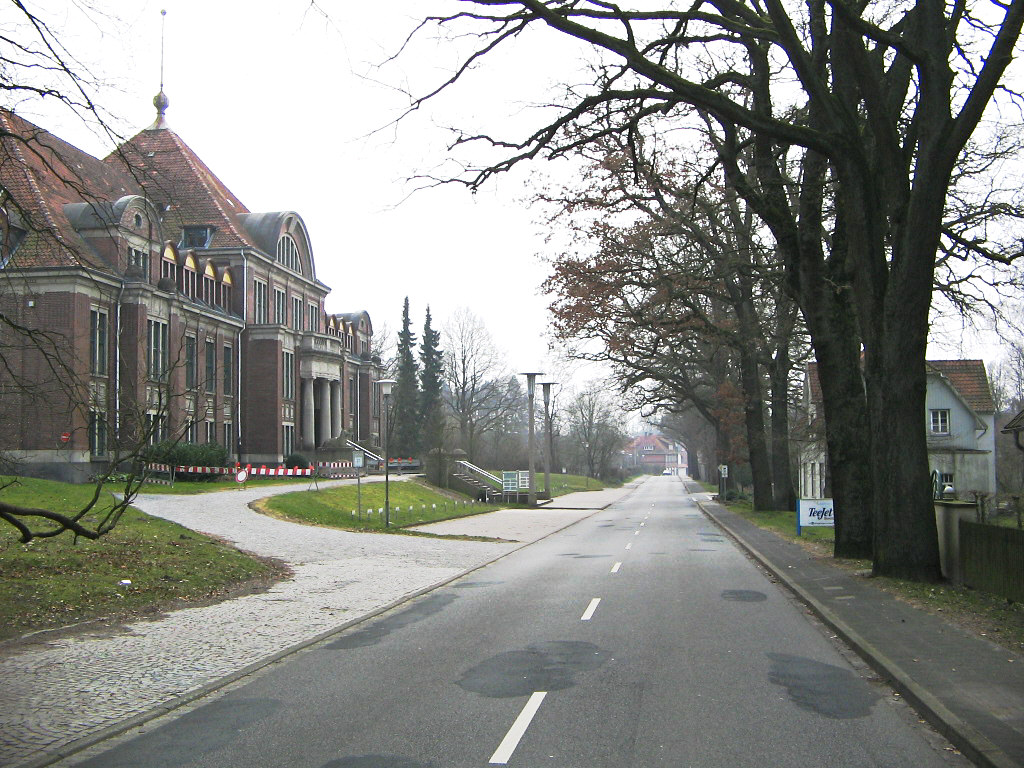 Bomlitz, old administration building of Wolff company (today: Dow Wolff Cellulosics), Lower Saxony, Germany